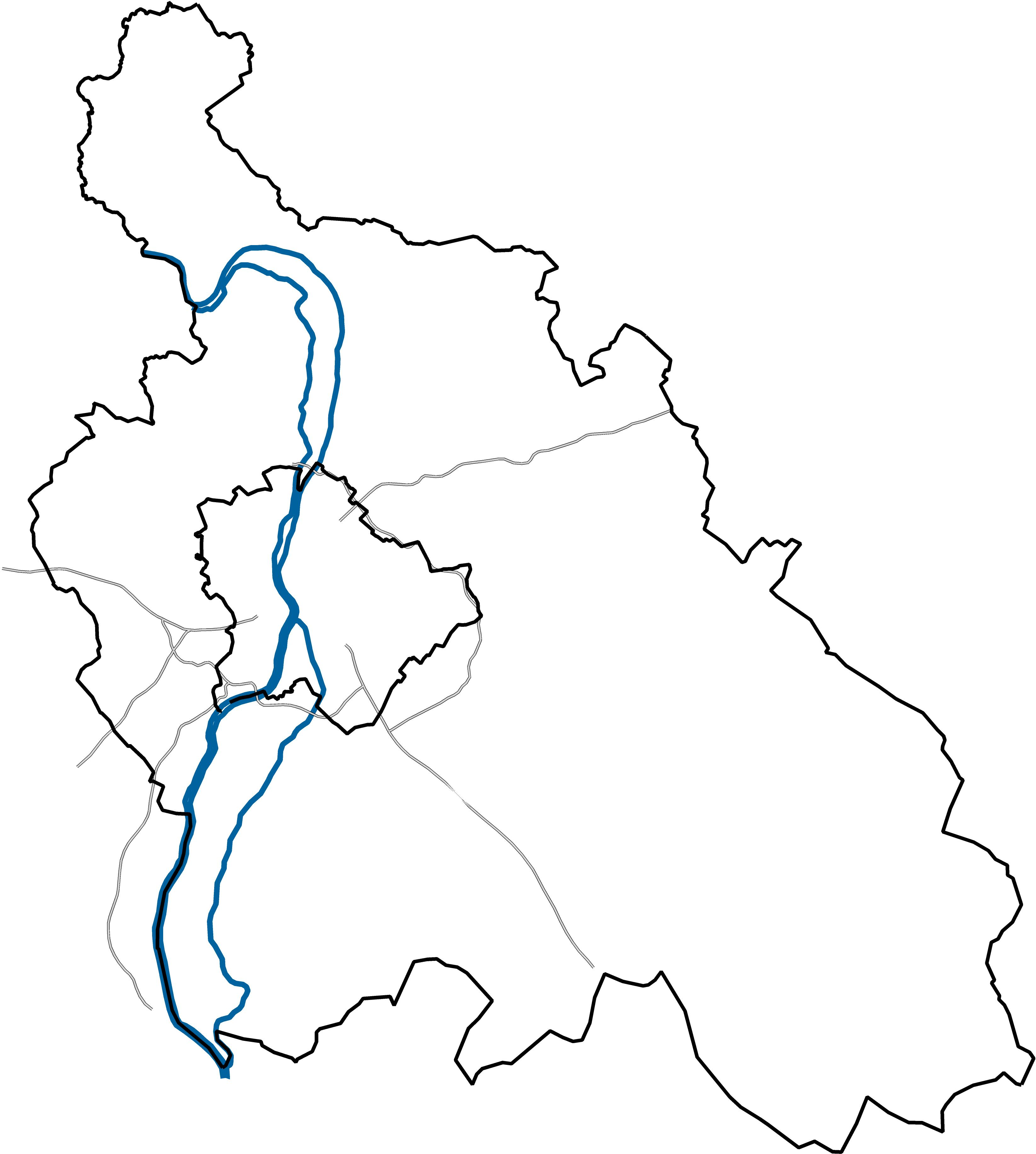 Location map of Pest county Pest megye vaktérképe